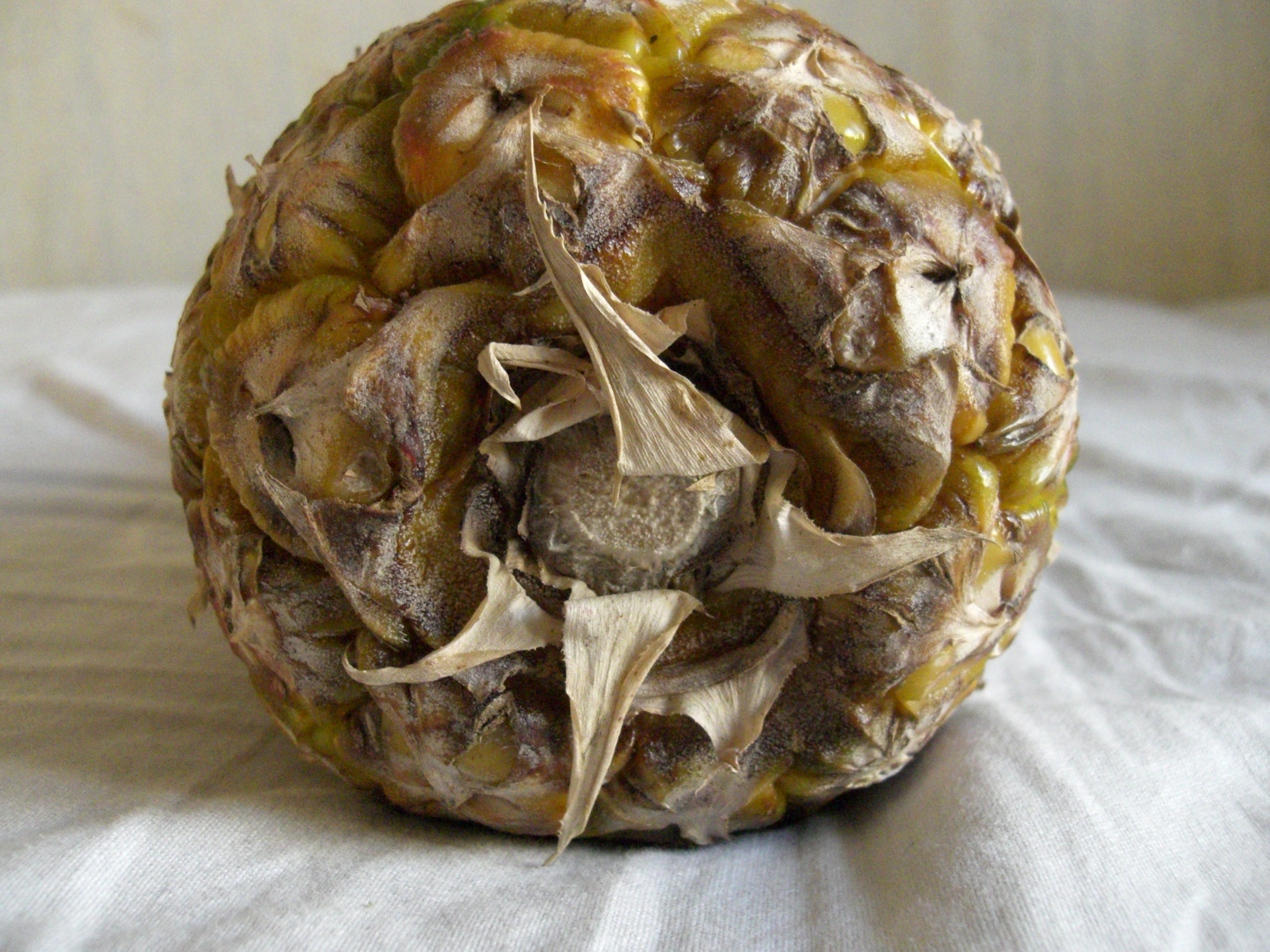 Pineapple fruit - detail of button part